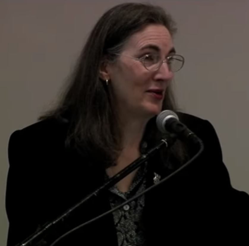 Distinguished art historian Dr. Gail Levin discusses and gives a PowerPoint illustrated lecture on her new book, Lee Krasner: A Biography—the first full-length account of Lee Krasner's influential and colorful life. Levin presents Krasner as an independent, resourceful woman and an artist of uncompromising talent and remarkable energy. Debunking previous portrayals that depict Krasner solely as the long-suffering wife of Jackson Pollock, Levin allows her to emerge as a significant artist in her own right, a painter who deserves a place in the twentieth century's cultural history and artistic pantheon. This event took place at the Elizabeth A. Sackler Center for Feminist Art (inside the Brooklyn Museum) on May 15, 2011. Video courtesy Elizabeth A. Sackler Foundation.